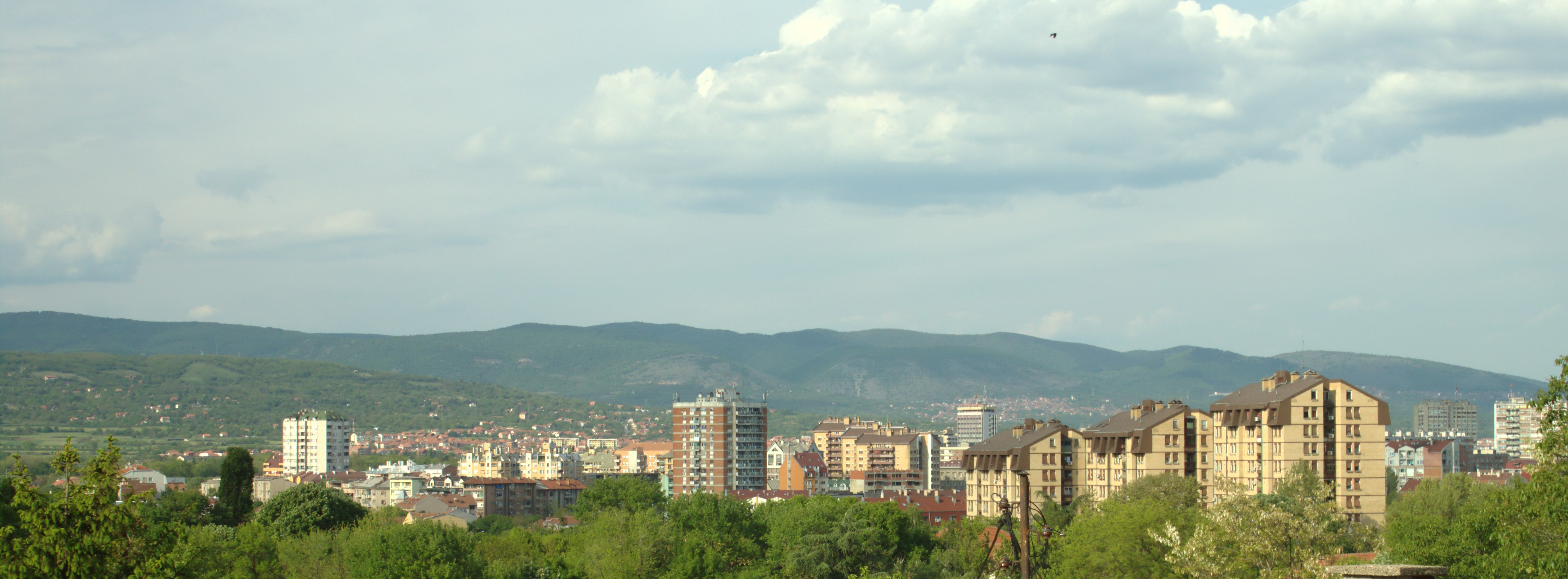 A view of Niš from the southwestern edge of the city - Bubanj, Serbia